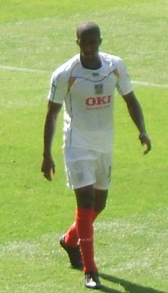 a picture of sylvain distin that I took myself